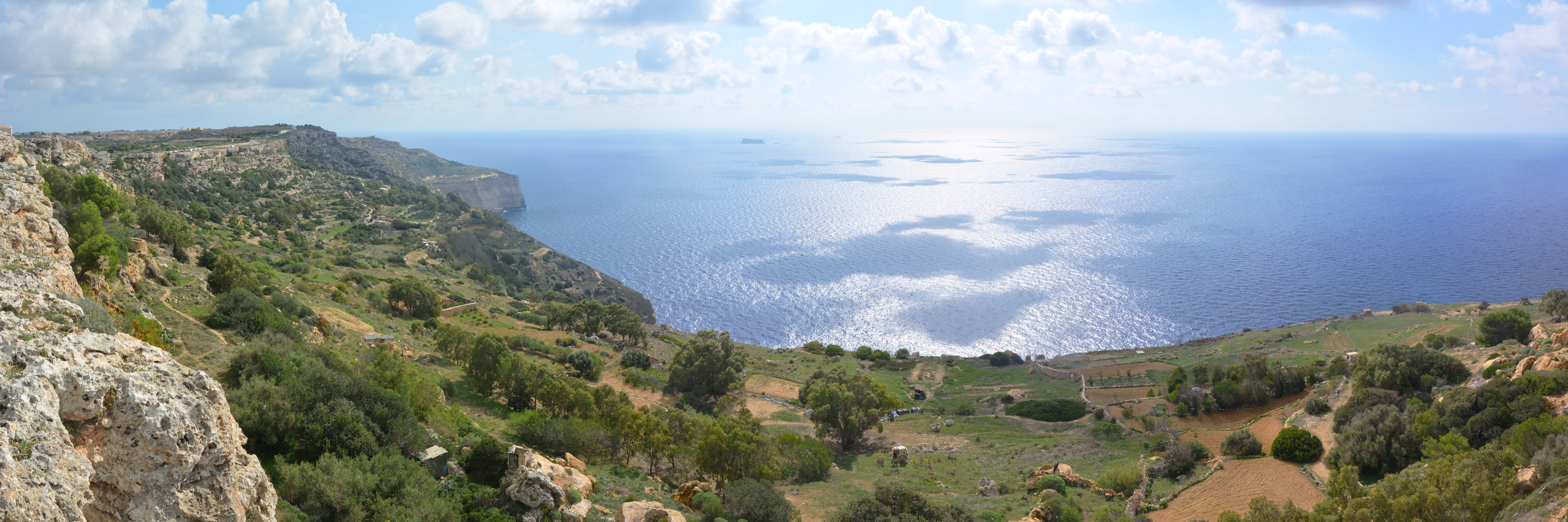 Dingli Cliffs panoramic view, Gozo, Malta